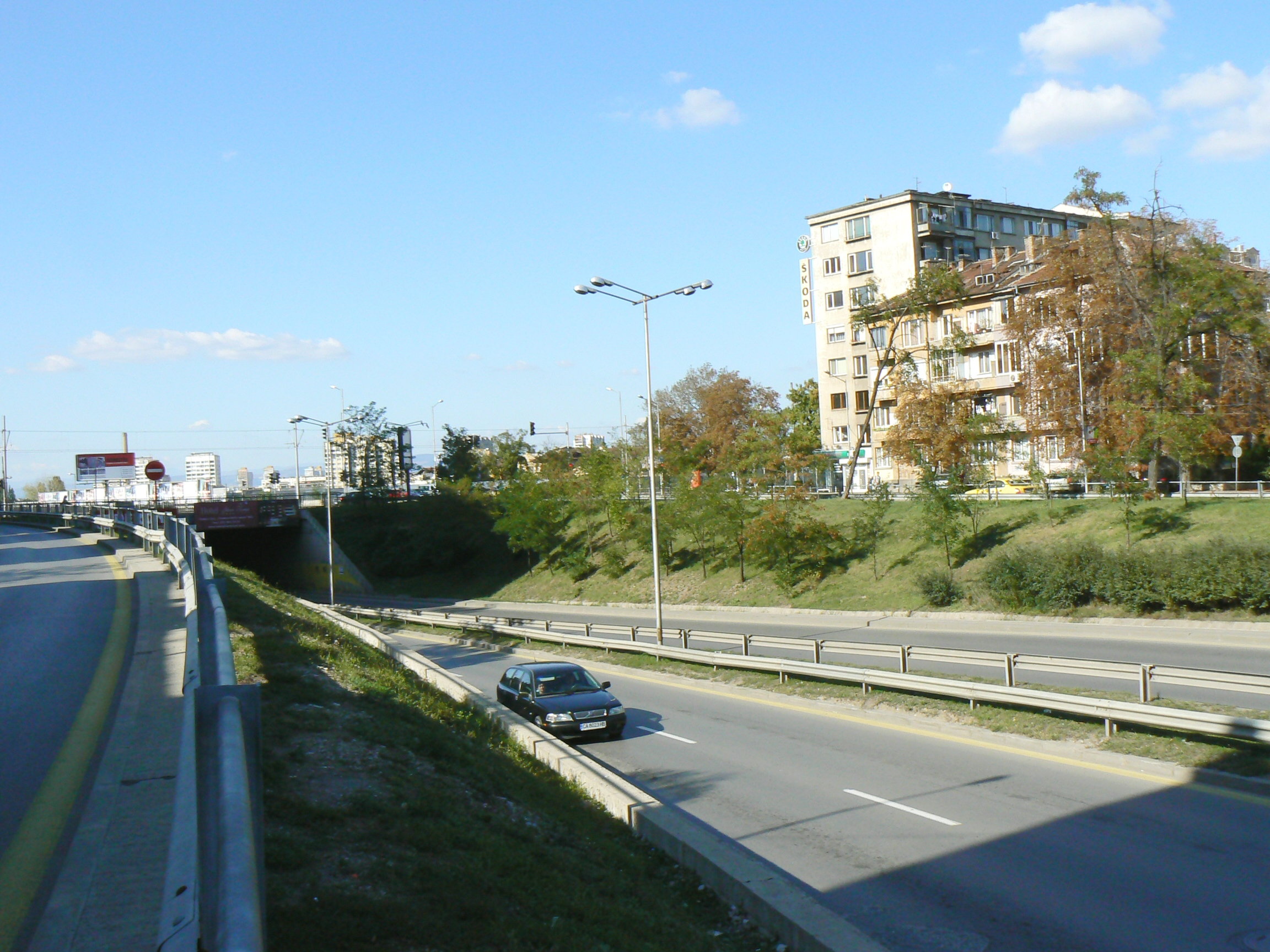 Boul. "Acad. Ivan Evstratiev Geshov", Sofia, Bulgaria